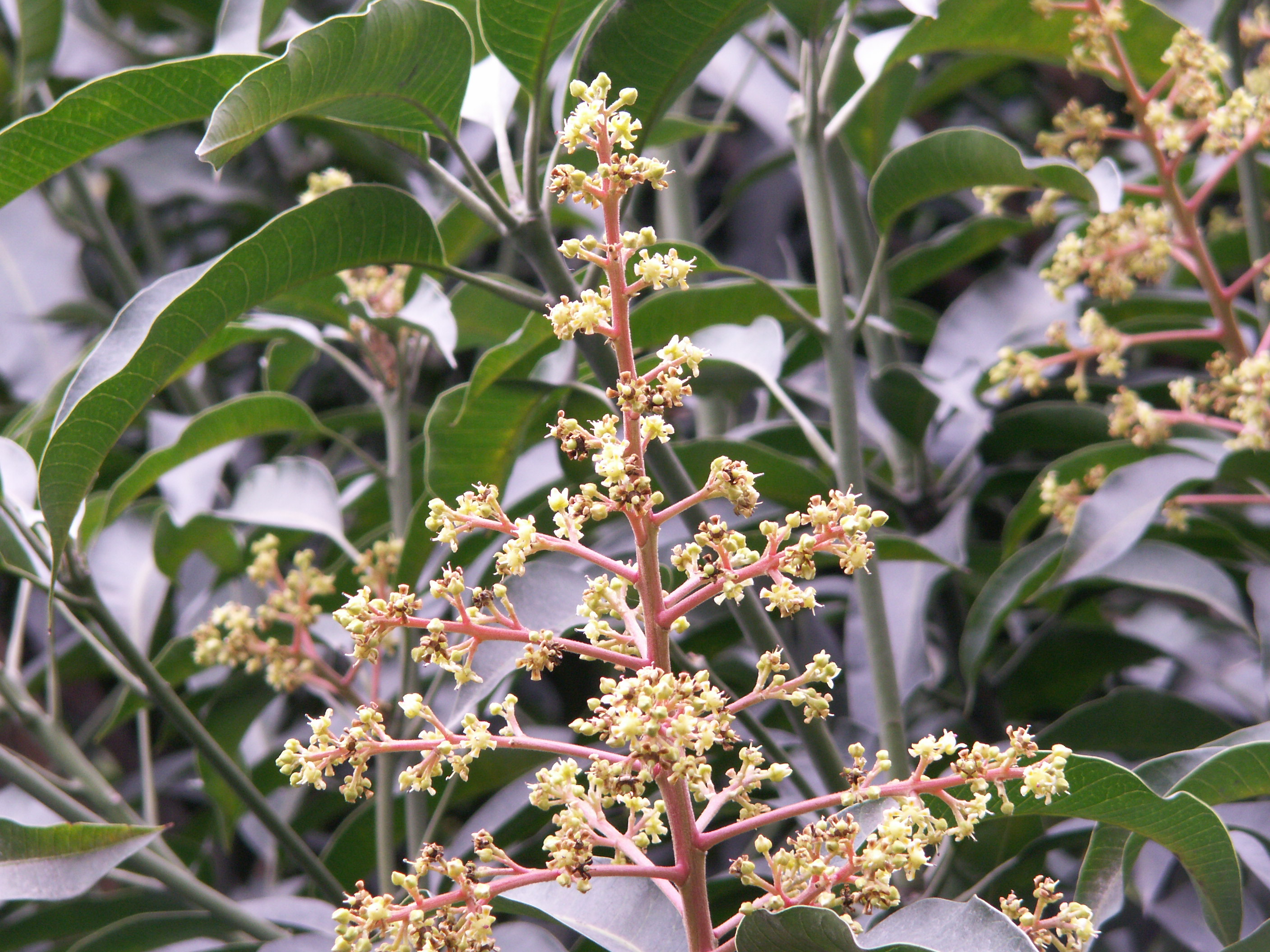 Flower of mango